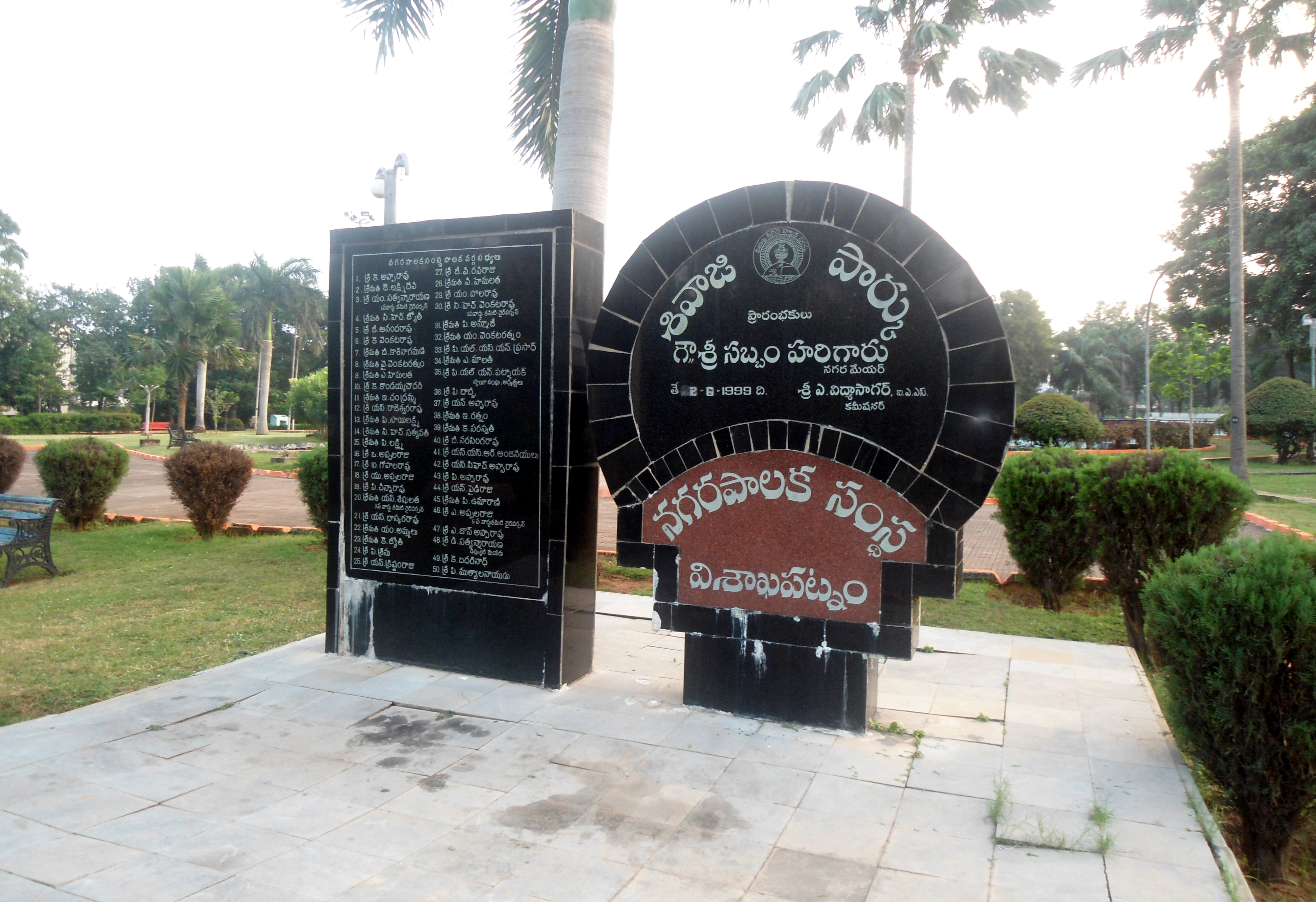 A pylon at Shivaji Park in Visakhapatnam